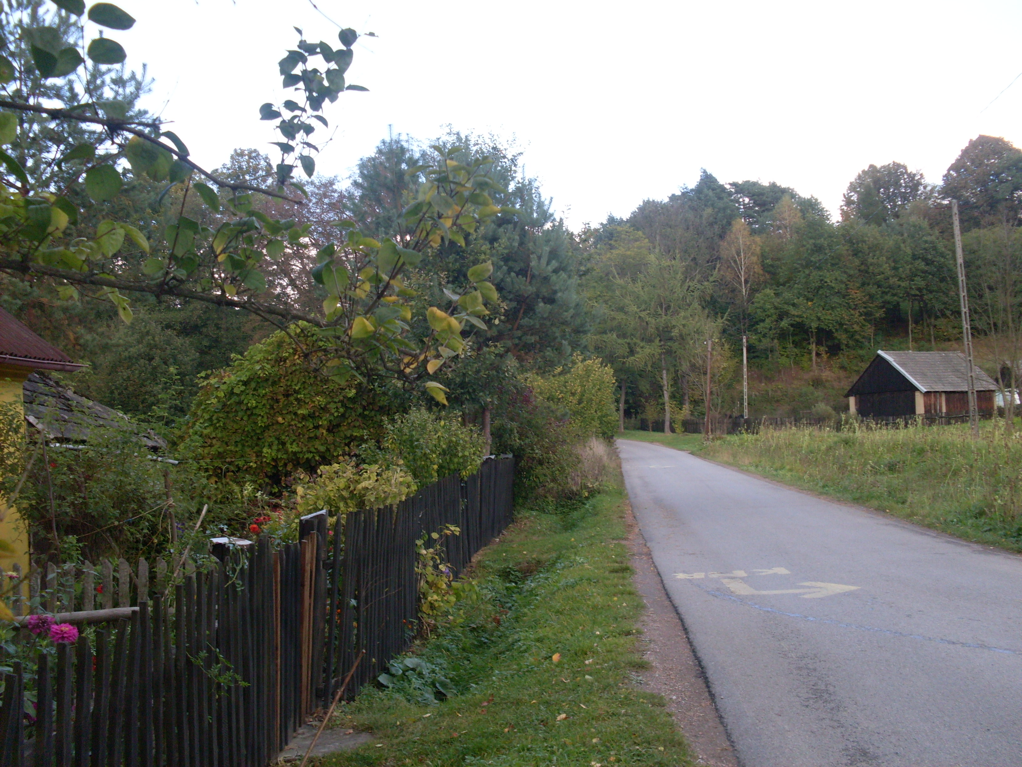 Rybna.Wrzosy